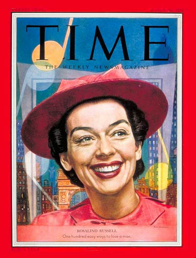 Time magazine, Volume 61 Issue 13. Front cover is an illustration of Rosalind Russell in Wonderful Town.